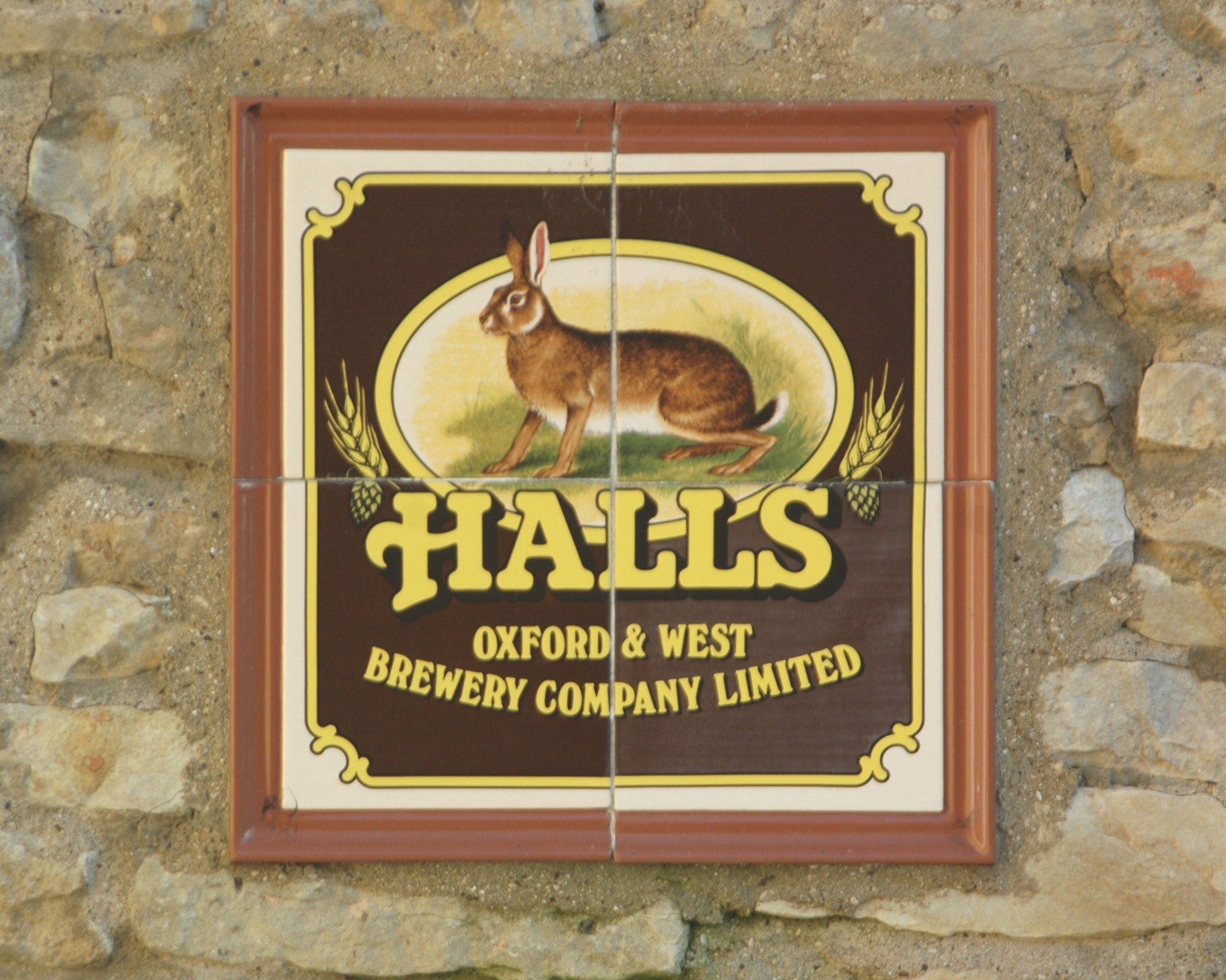 Brewer's plaque outside The Plough public house, Great Haseley, Oxfordshire